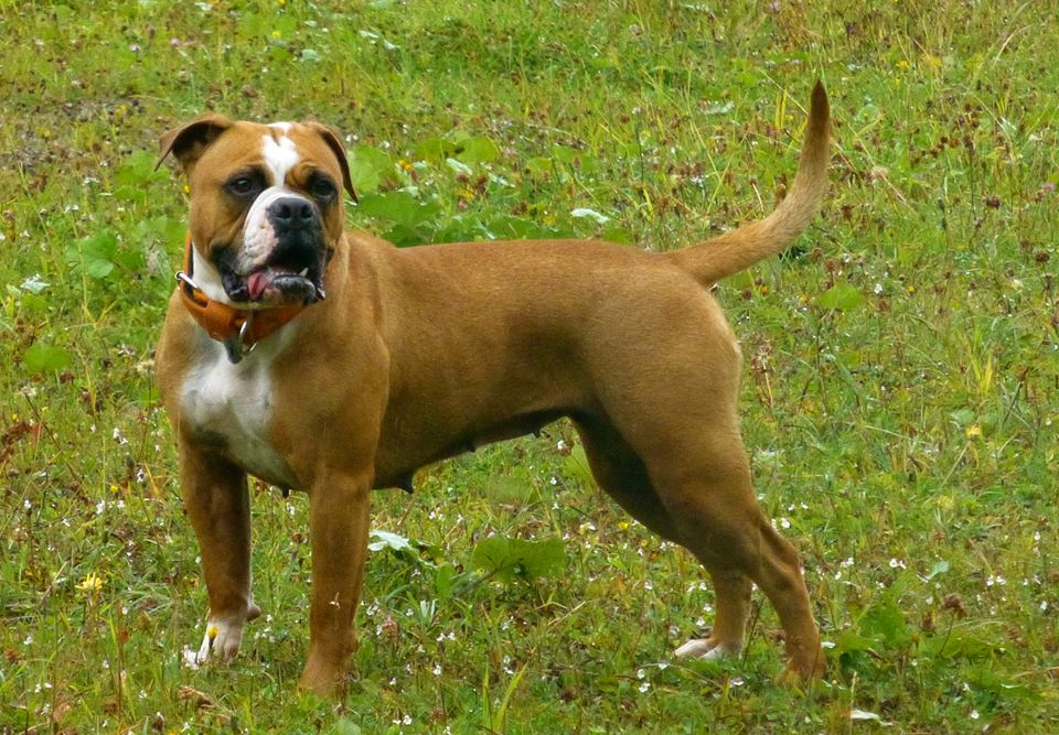 Leavitt Bulldog 4